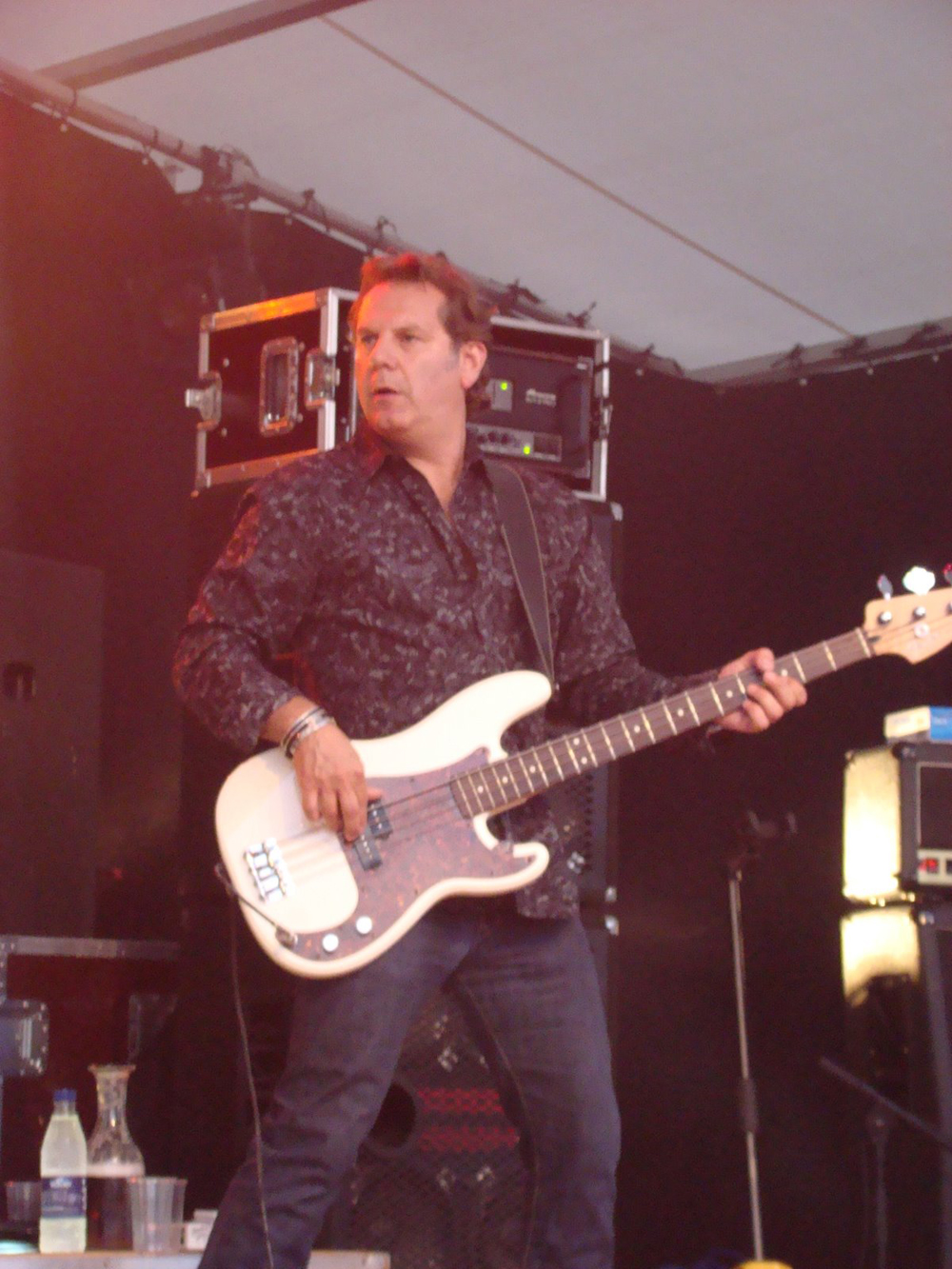 David Levy Live wit Rory Gallagher Tribute